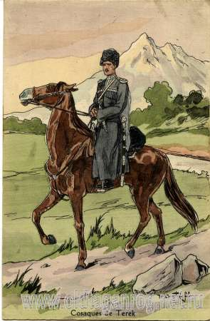 Uniform of 1-st Volgsky Regiment. 1914 Postcard